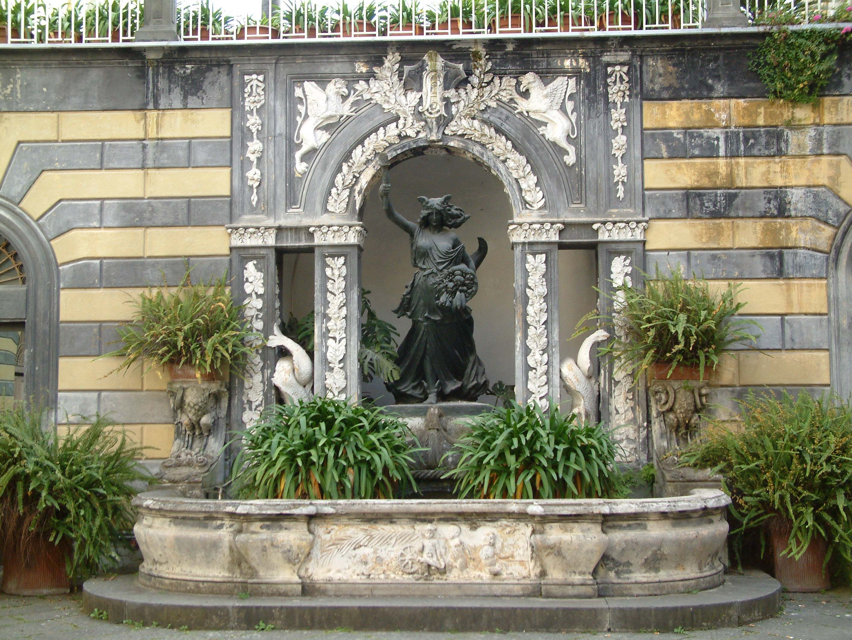 Picture about Golia Palace, Aversa.